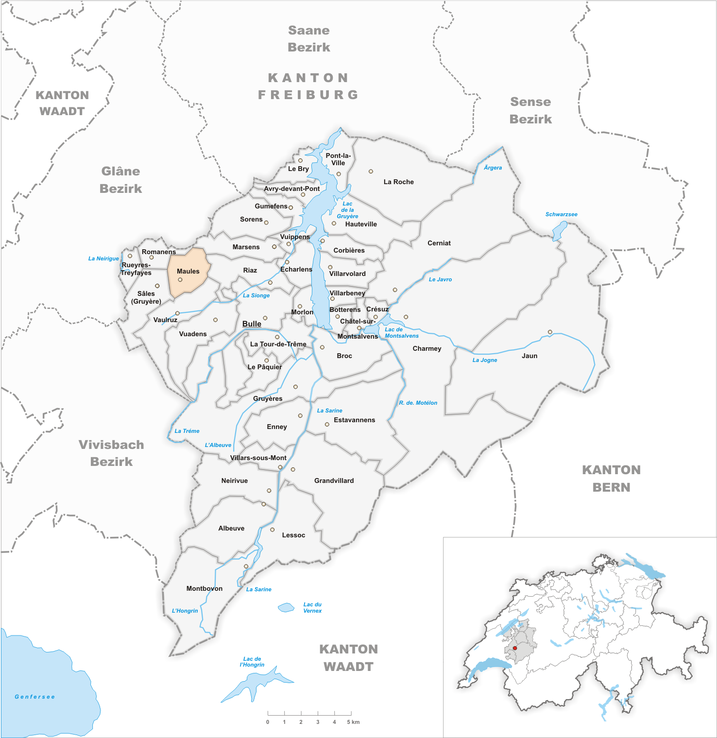 Municipality Maules Artist: Tschubby